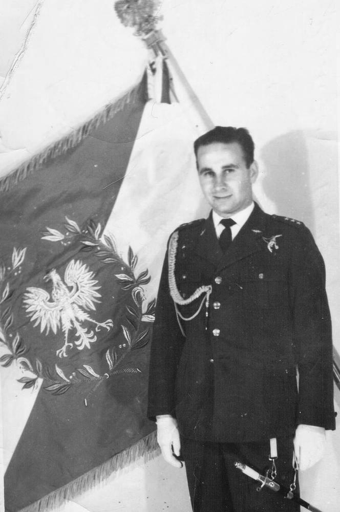 Pilot instruktor z 64 Pułku Szkolnego w Przasnyszu por. pil. Mieczysław Bieniaszewski, 1963